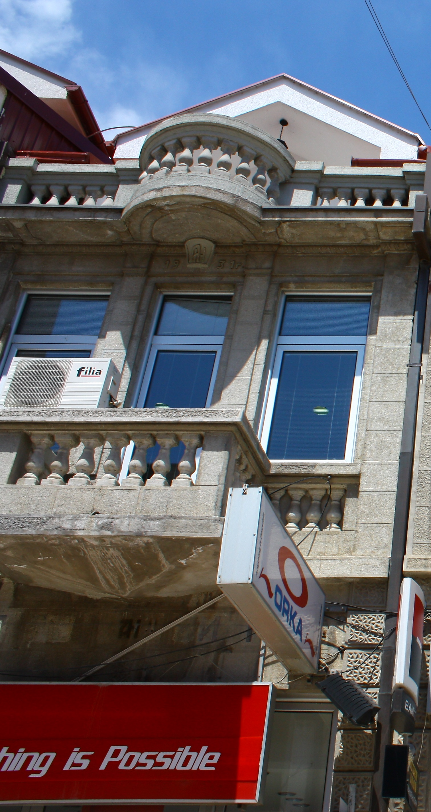 Struga, Macedonia